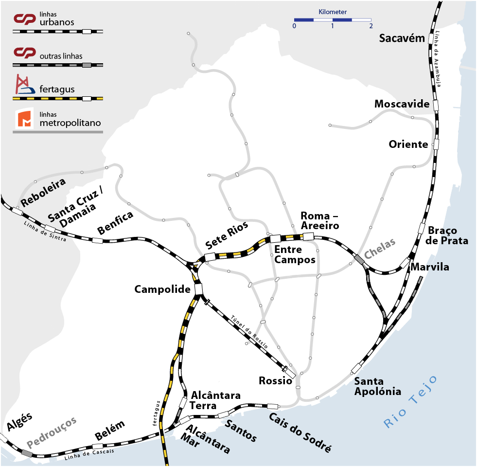 The Lisboa railway junction